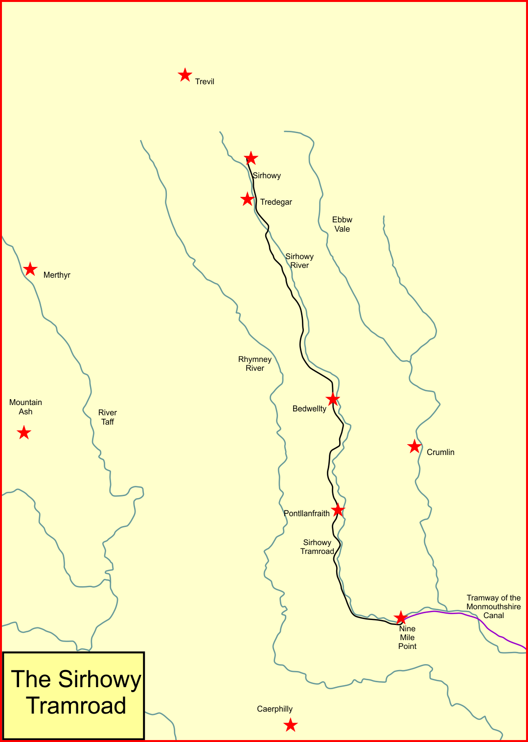 System map of the SIrhowy Tramroad, Wales